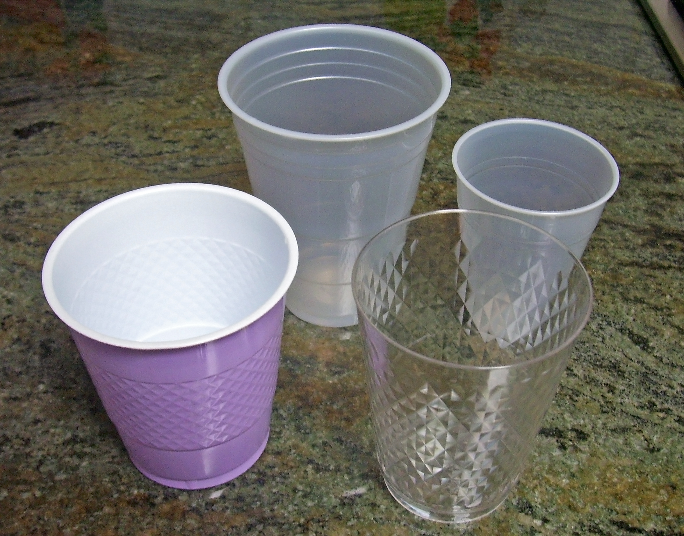 Assortment of disposable plastic cups